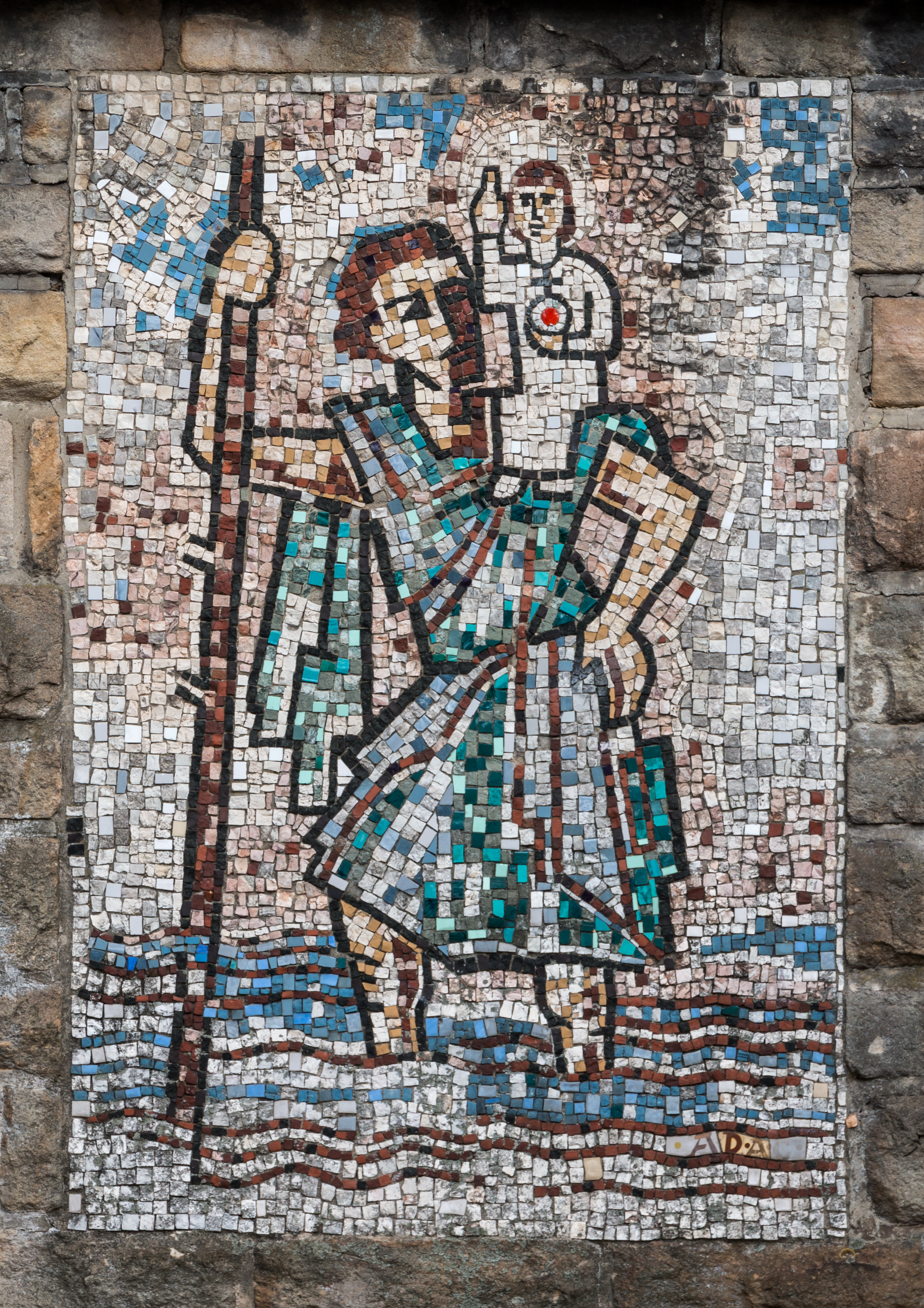 Stairs to the church square of the church of Saint Viktor, Dülmen, North Rhine-Westphalia, Germany This image shows a heritage building in Germany, located in the North Rhine-Westphalian city Dülmen (no. 15). Sculpture TitleMosaik „St. Viktor“ArtistUnknown artistDateUnknown dateUnknown date